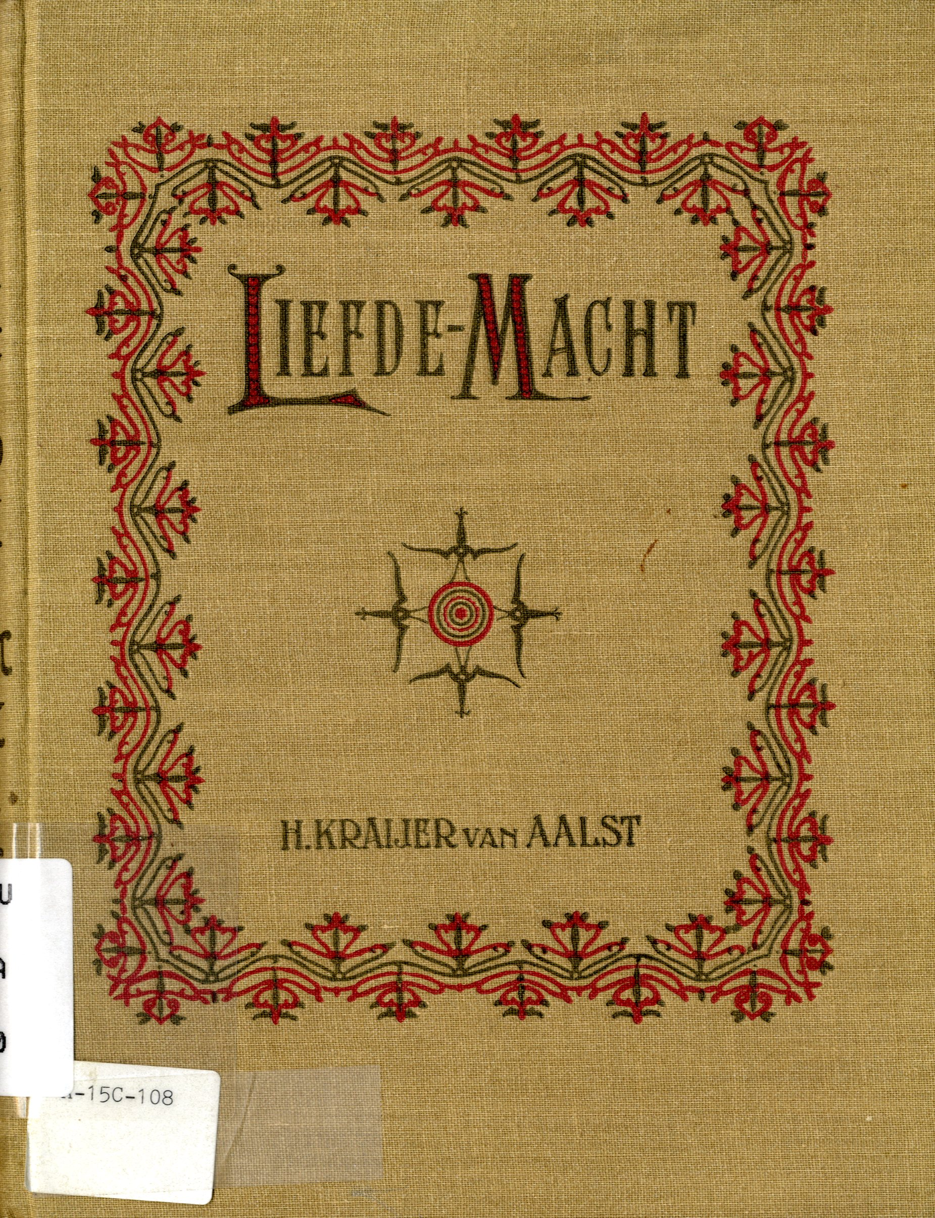 Cover from the book 'Liefde-macht'